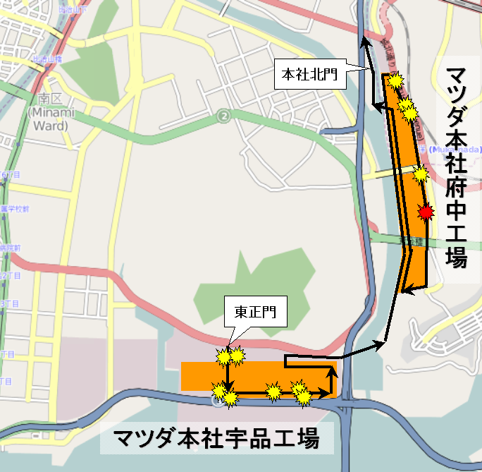 Mazda factory rampage in Hiroshima Japan 2010-06-22. Former seasonal worker of the Mazda factory injured 11 people (yellow) and killed 1 (red). Points of incidens are roughly pointed (not perfectly exact location)